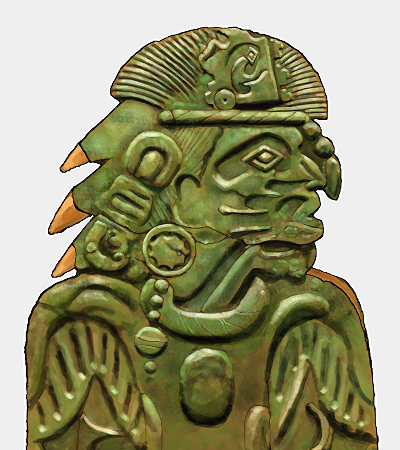 An illustration of the head of Wulfing plate A, one of the Wulfing cache found near Malden, Missouri in 1906. Plate A is the only anthropomorphic plate of the eight plates of the Wulfing cache. Detail of the head shows several motifs associated with the "Birdman" or falcon dancer of the Mississippian Art and Ceremonial Complex or M.A.C.C. including the agnathous head mask with distinctive crenelated crown on headdress, Forked Eye Surround Motif, occipital hair bun and beaded forelock.[1]